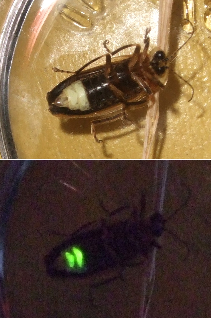 Firefly (species unknown) captured in New Brunswick, Canada. The top photo is taken with flash, the bottom without to demonstrate light production.